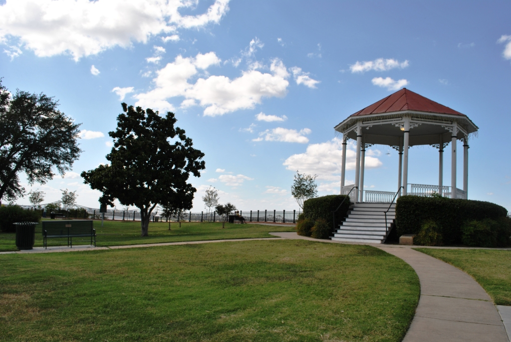 Natchez Bluffs and Under-the-Hill Historic District